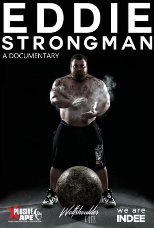 Official Poster for Eddie - Strongman film